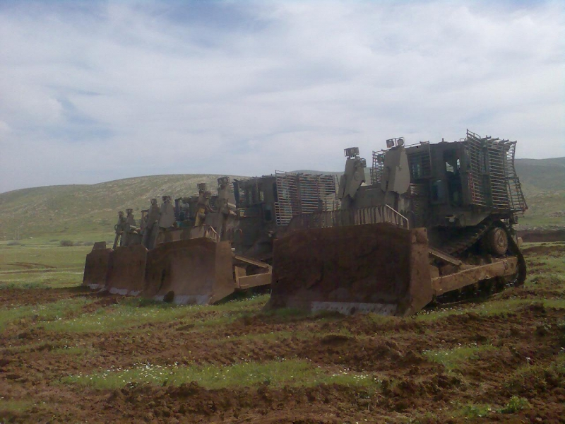 Armored IDF Caterpillar D9R bulldozers